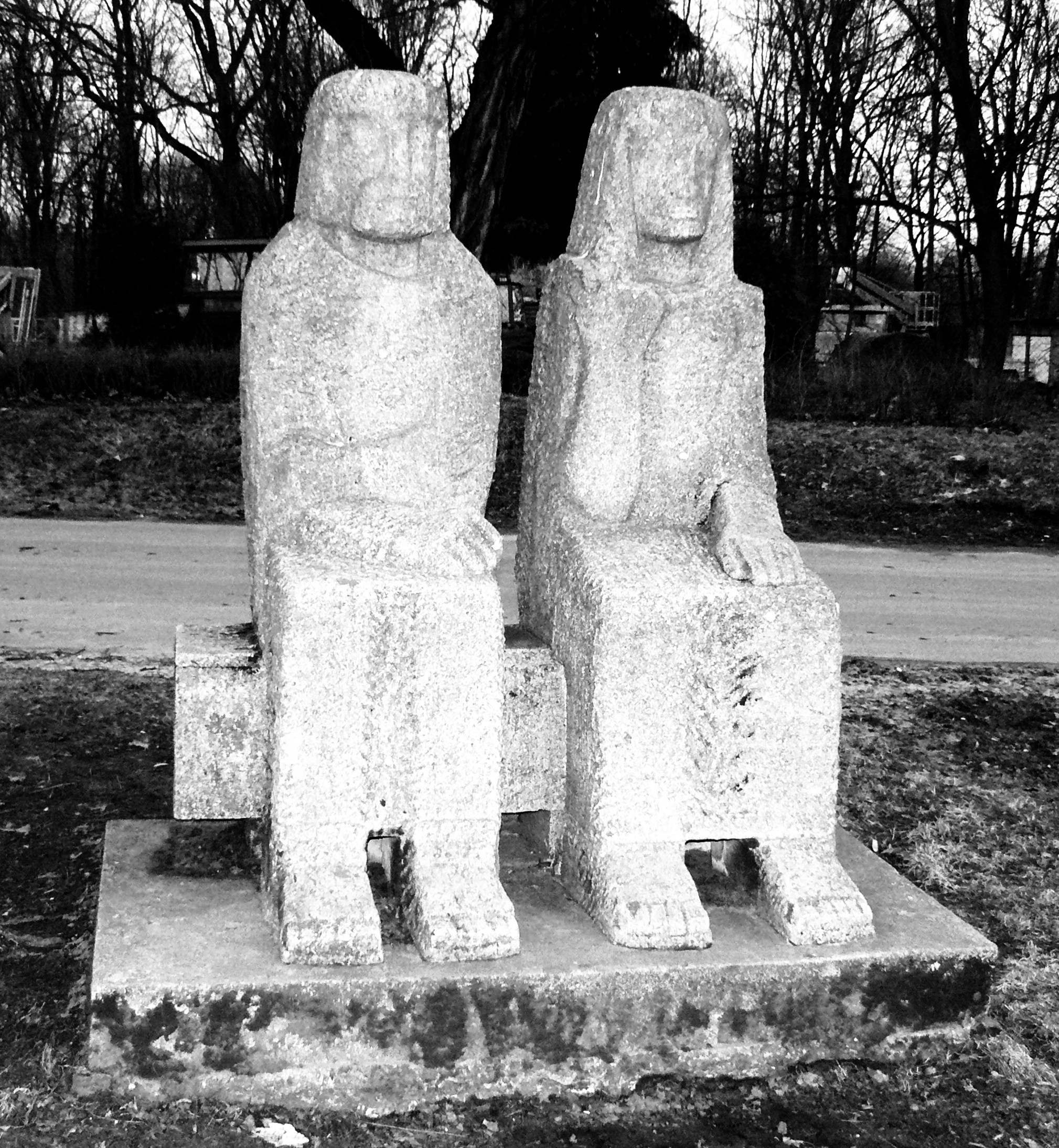 Piast and Rzepicha (polish kings) in Poznan (from Czeslaw Wozniak).